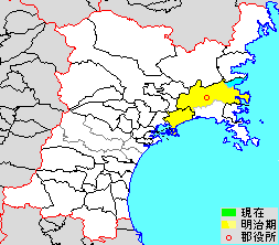 Map of Monou District, Miyagi, Japan